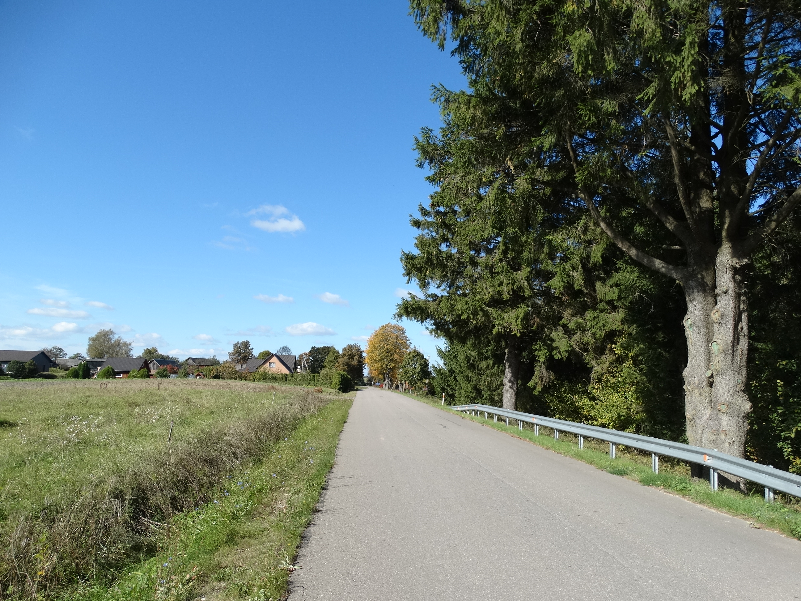 Klėriškės, Kaišiadorys district, Lithuania